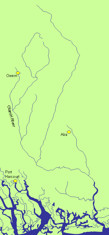 Sketch map of the Otamiri River in the Nigerian Delta region